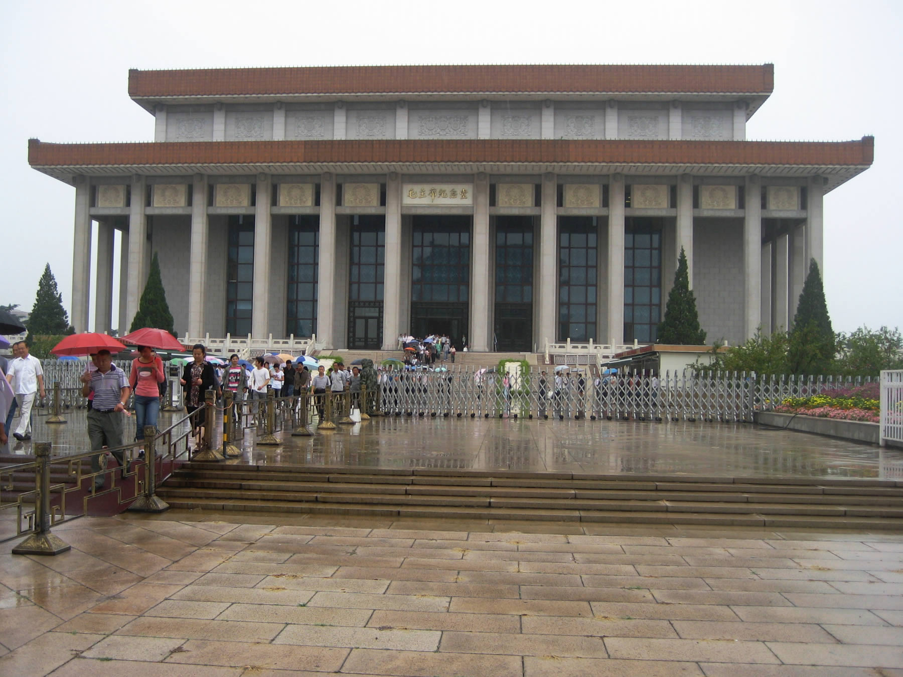 A steady stream of visitors exits the Chairman Mao Memorial Hall on Tiananmen Square, Beijing.